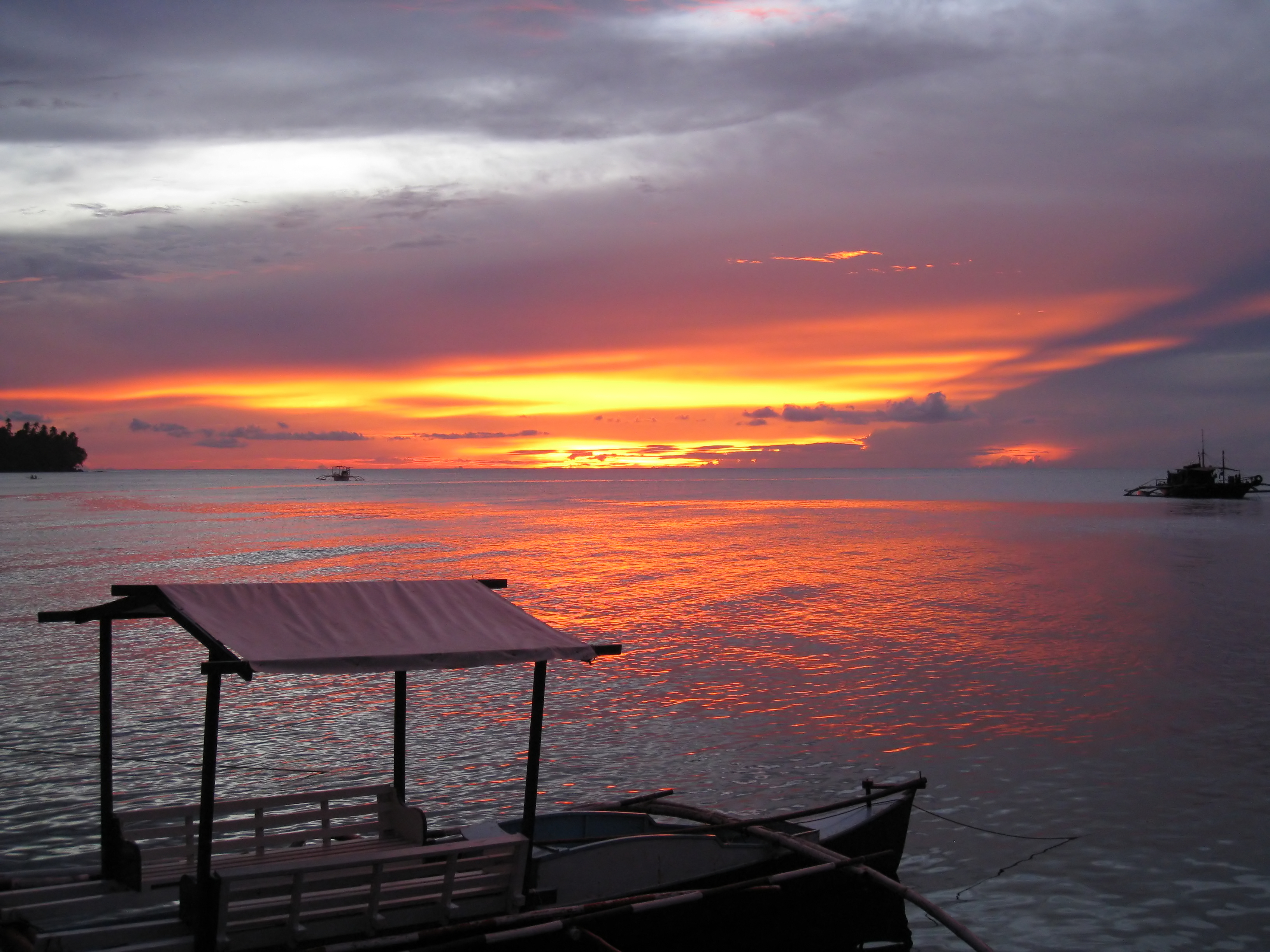 Sunset from Paras Beach Resort in Camiguin